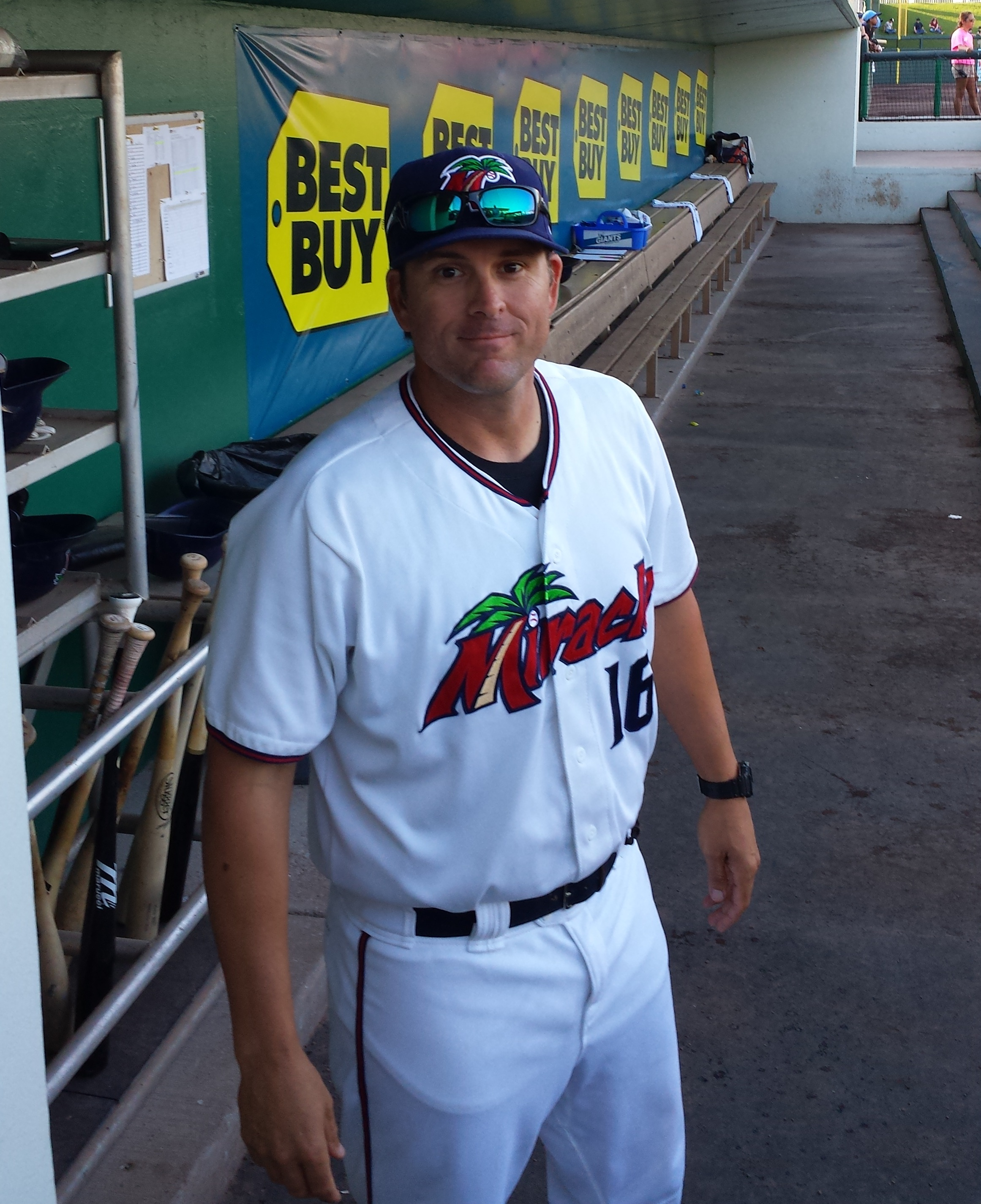 2014 photo of Fort Myers Miracle manager Doug Mientkiewicz